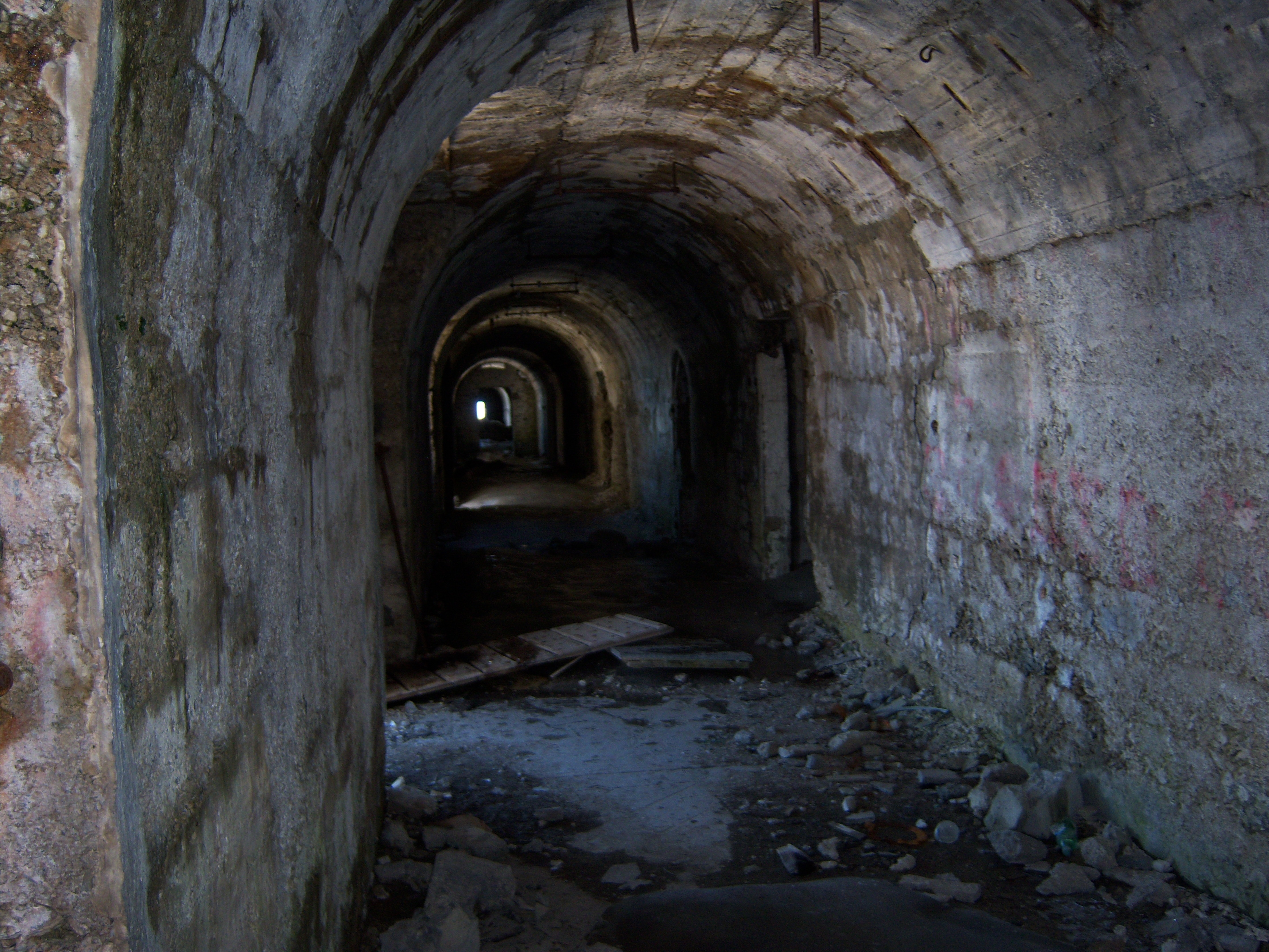 Interior of the anterior gallery of Chaberton's Fort